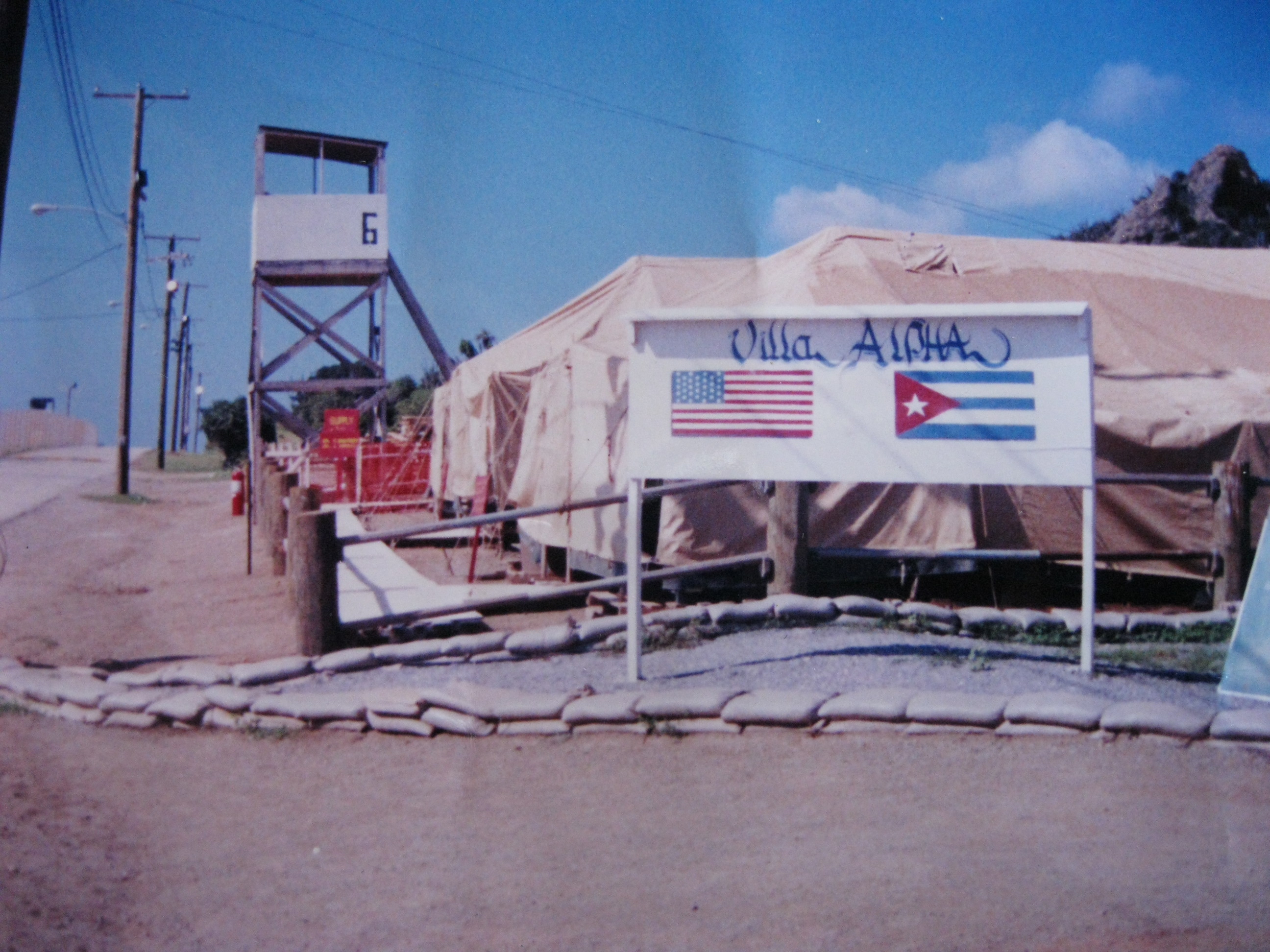 CAMP ALPHA-CUBAN REFUGEE CAMP-CUBAN EXODUS 1994. GITMO BAY CUBA.